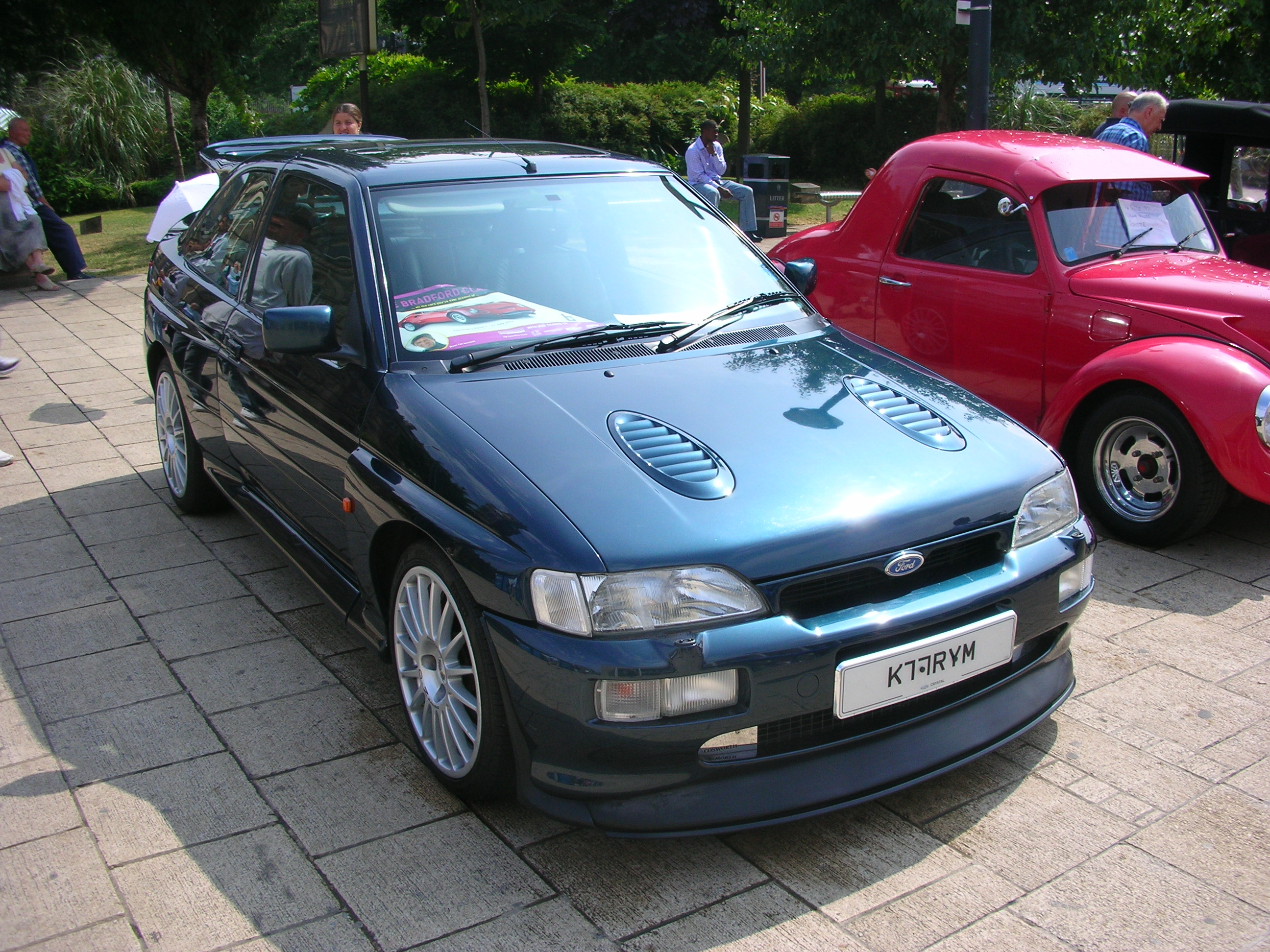 A Ford Escort RS Cosworth. Photo cropped from the original Flickr picture.